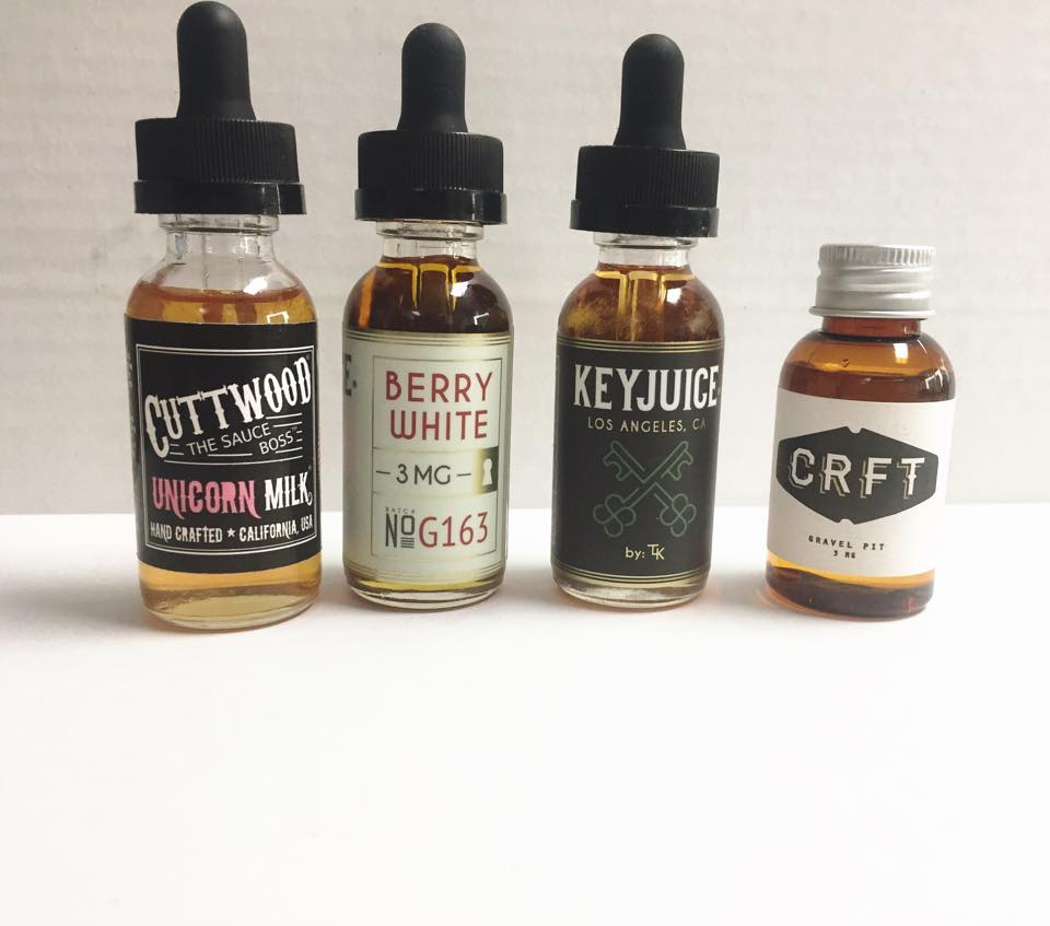 Various bottles of E-liquid